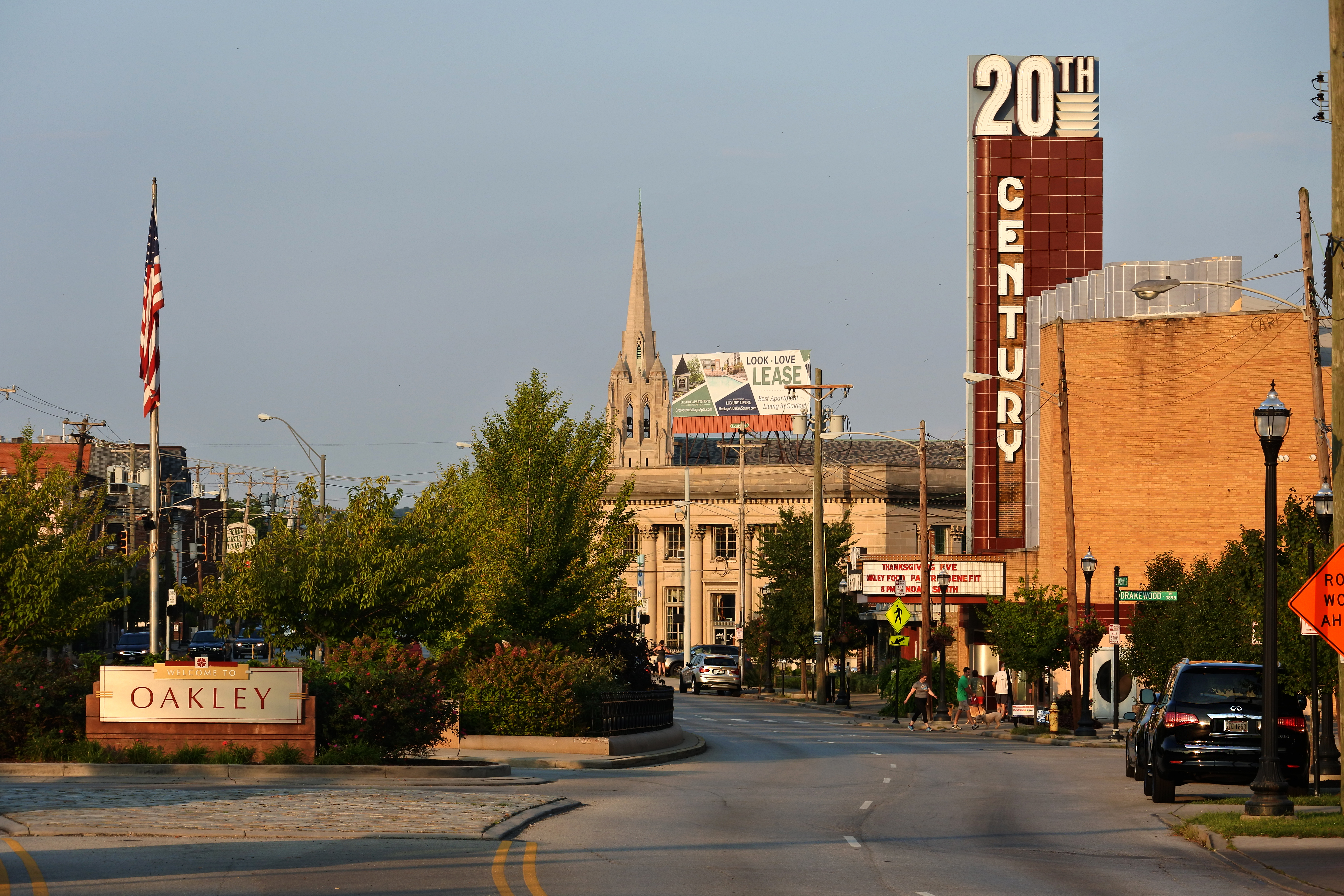 Oakley neighborhood, Cincinnati, Ohio